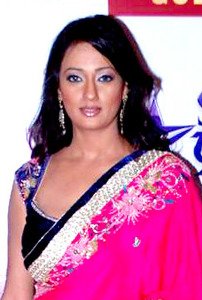 Brinda Parekh graces Indian Music Academy – Marathi Music Awards